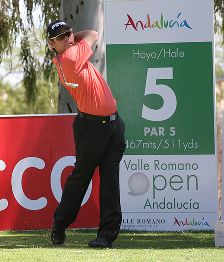 South African golfer Louis Oosthuizen at the Valle Romana Open, Marbella, Spain